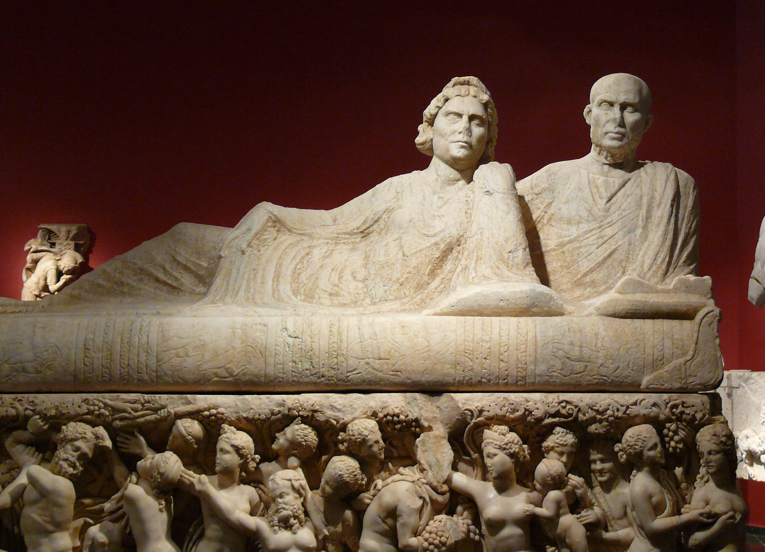 Antalya Archeological Museum, Dyonisus sarcophagus of the Attic type ( 3rd century AD ).